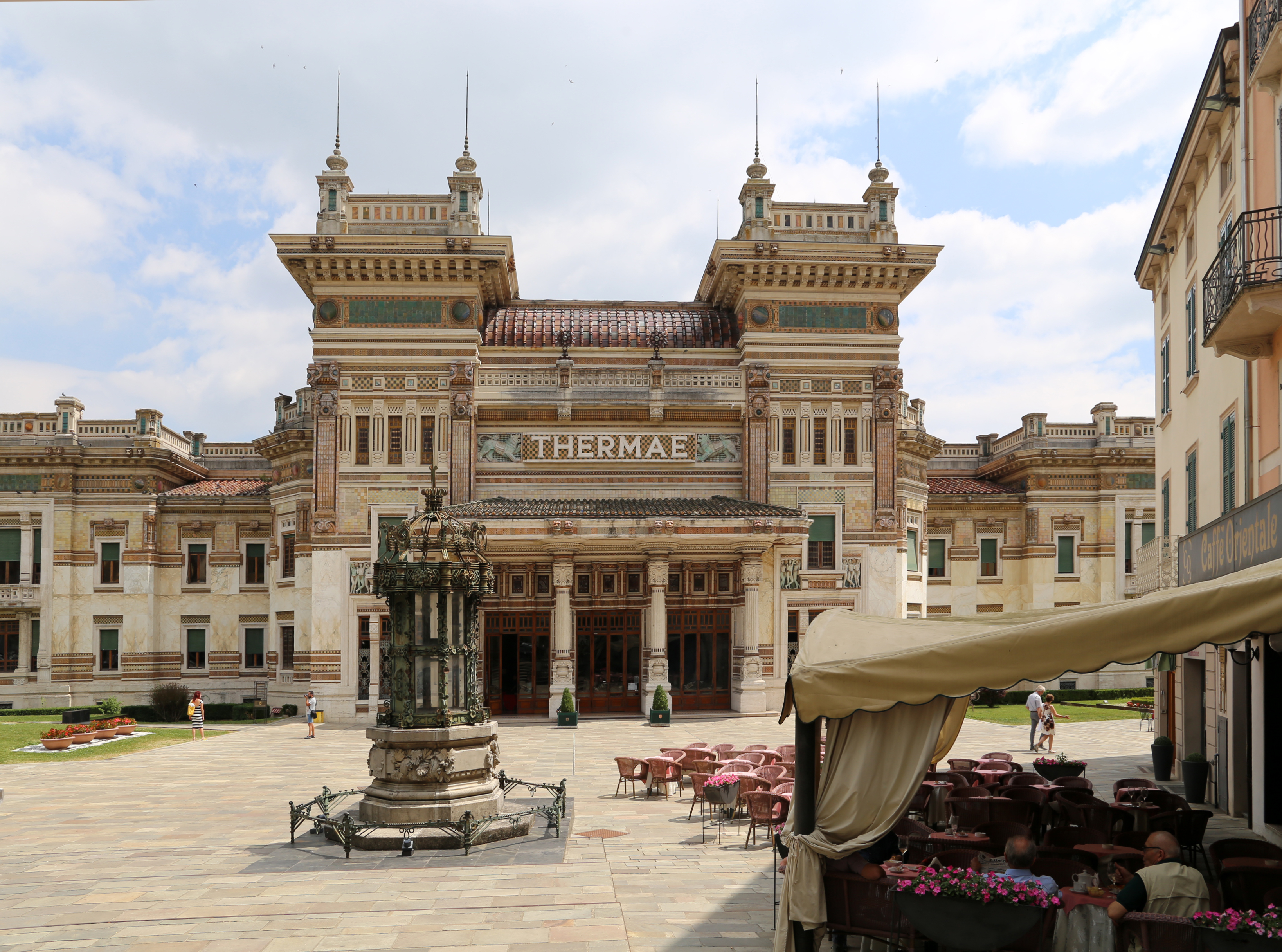 Terme Berzieri